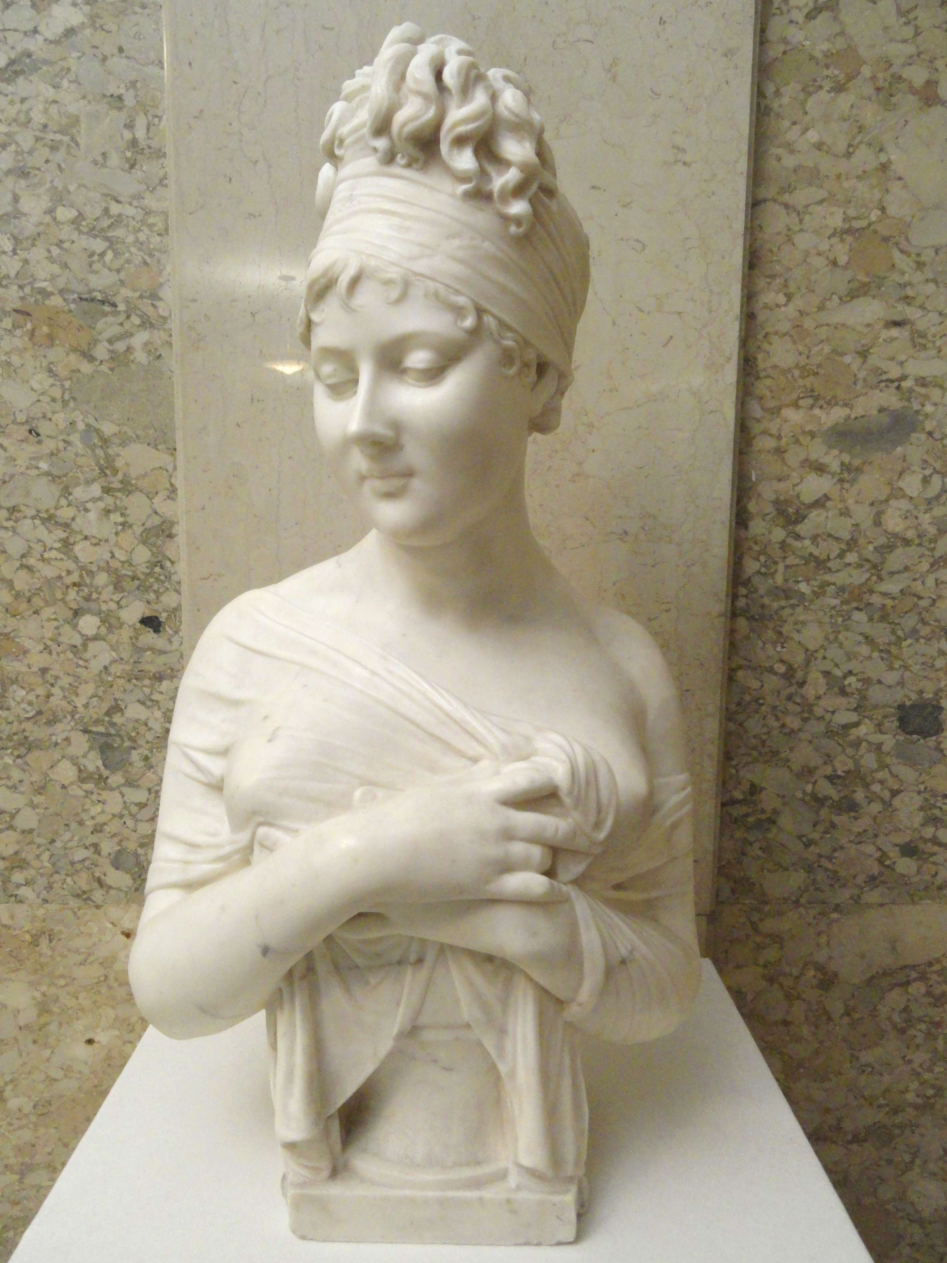 Exhibit in the Museum of Fine Arts, Springfield, Massachusetts, USA. This artwork is old enough so that it is in the public domain.